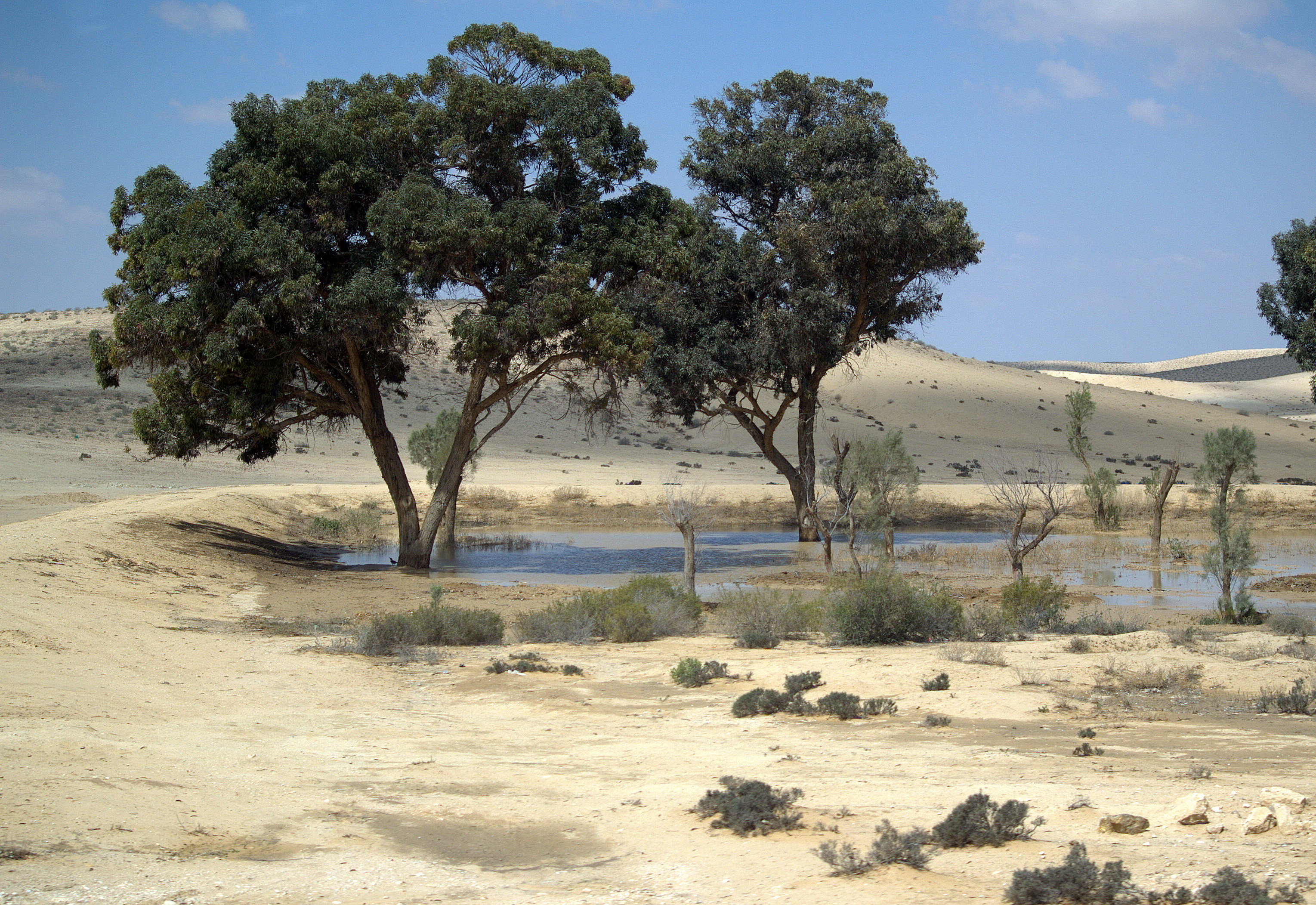 Jewish National Fund trees planted in The Negev desert.